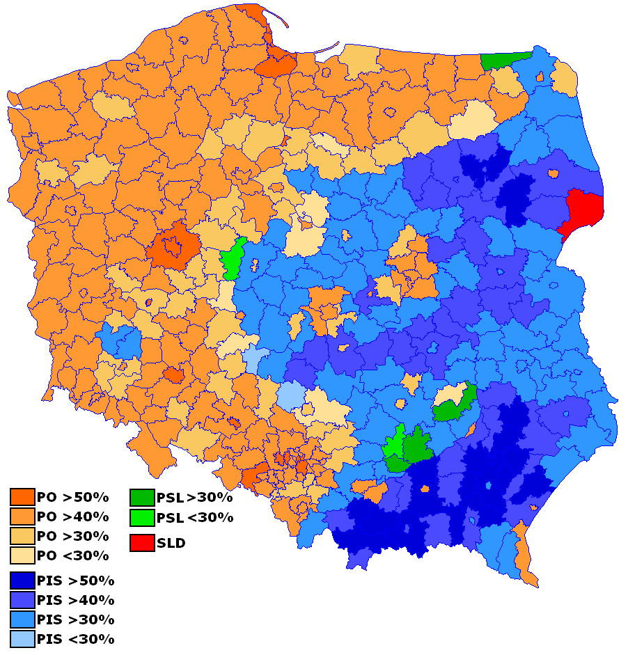 Polish parliamentary election, 2011 - Results by counties